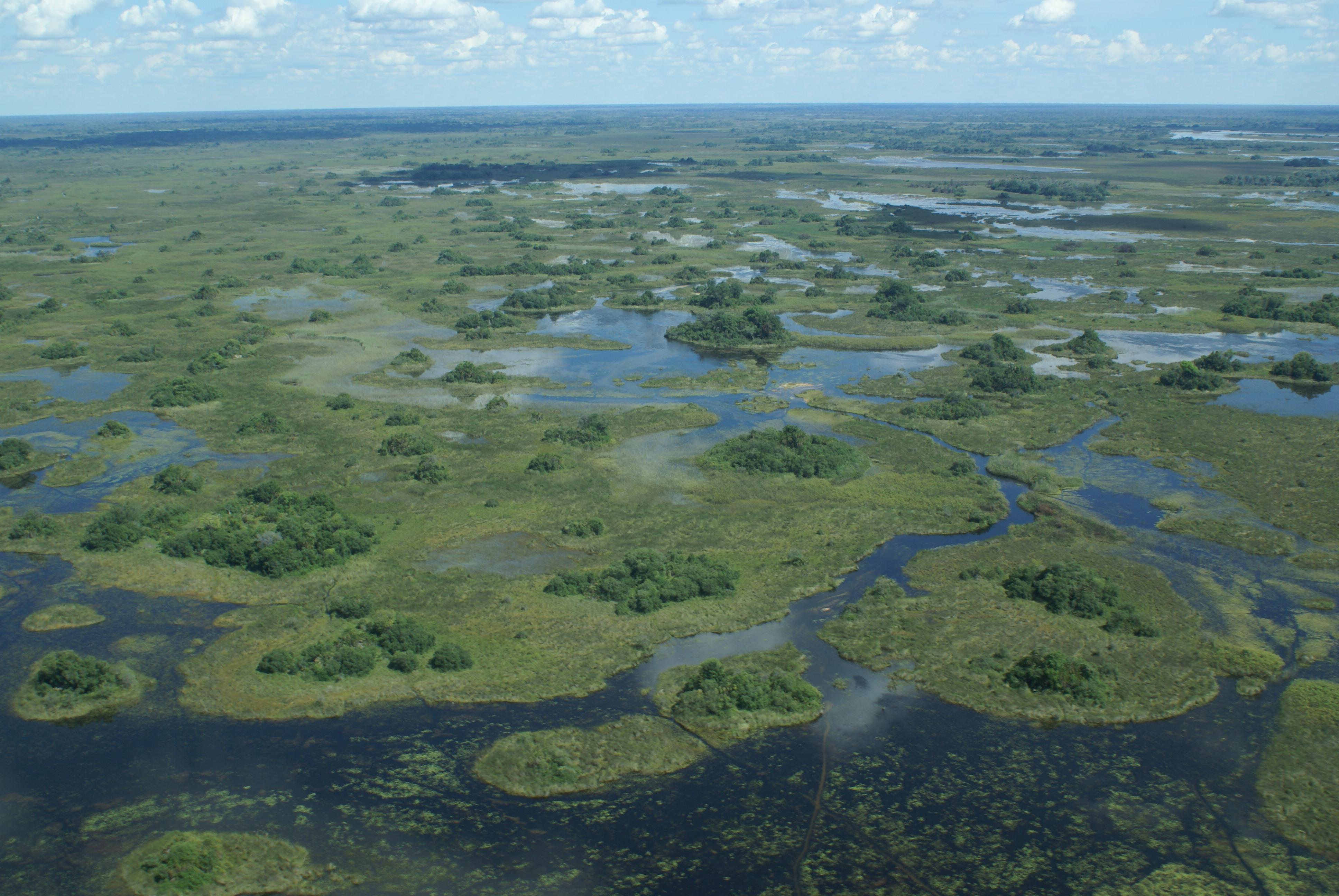 From the plane – this is during the dry season, the summer – in the winter, water flows down from Angola into the Okavango Delta and the wildlife are pinned into smaller and smaller spaces. Better game viewing then, I was told. I was happy with what I saw.